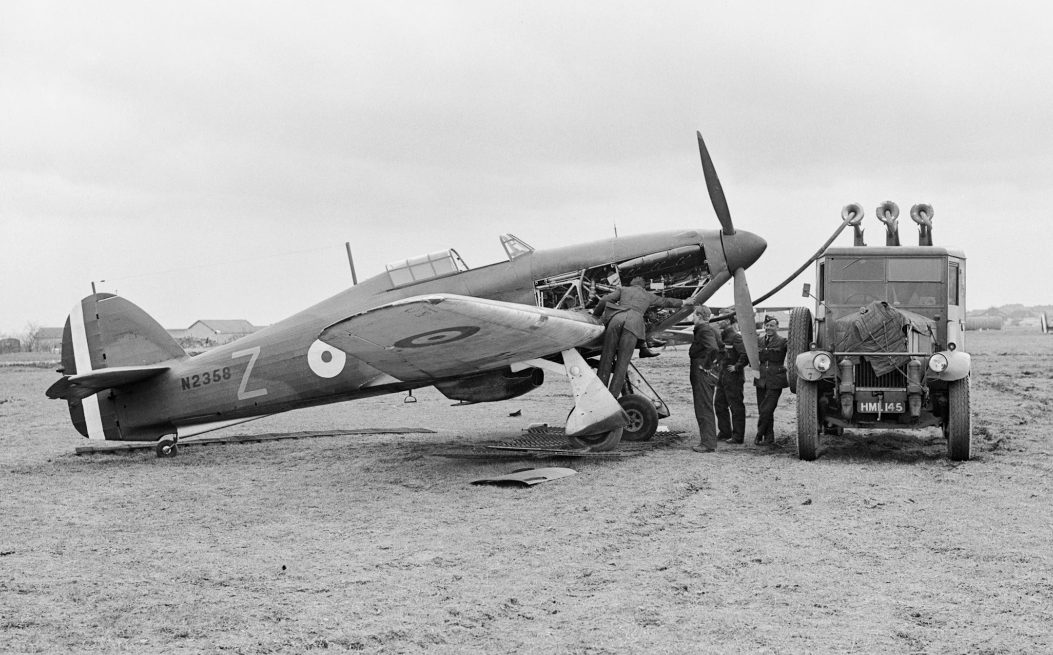 Hawker Hurricane Mark I, N2358 'Z', of No. 1 Squadron RAF is refuelled while undergoing an engine check at Vassincourt.